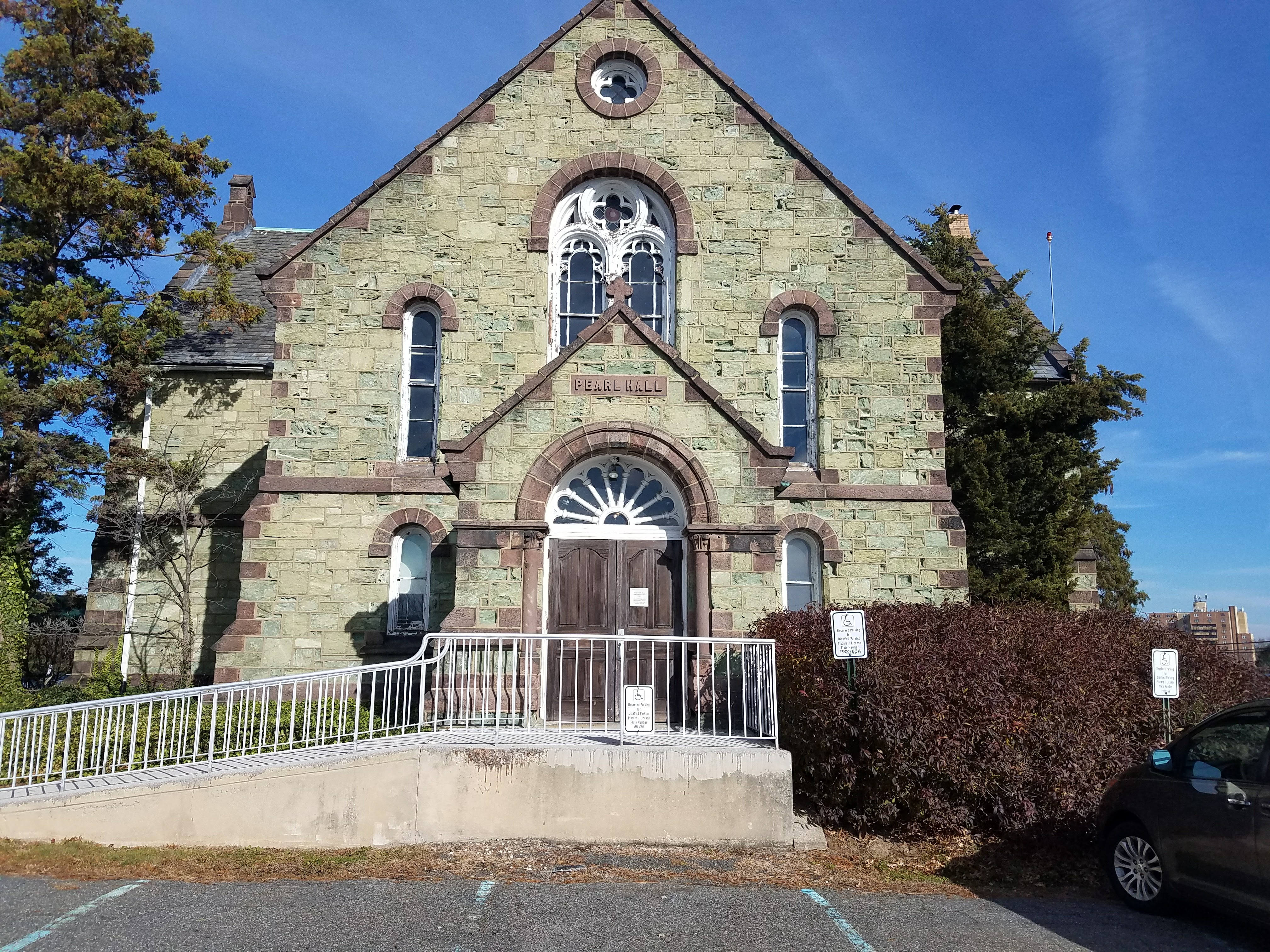 Pearl Hall library of the Crozer Theological Seminary. Picture taken 11/21/17